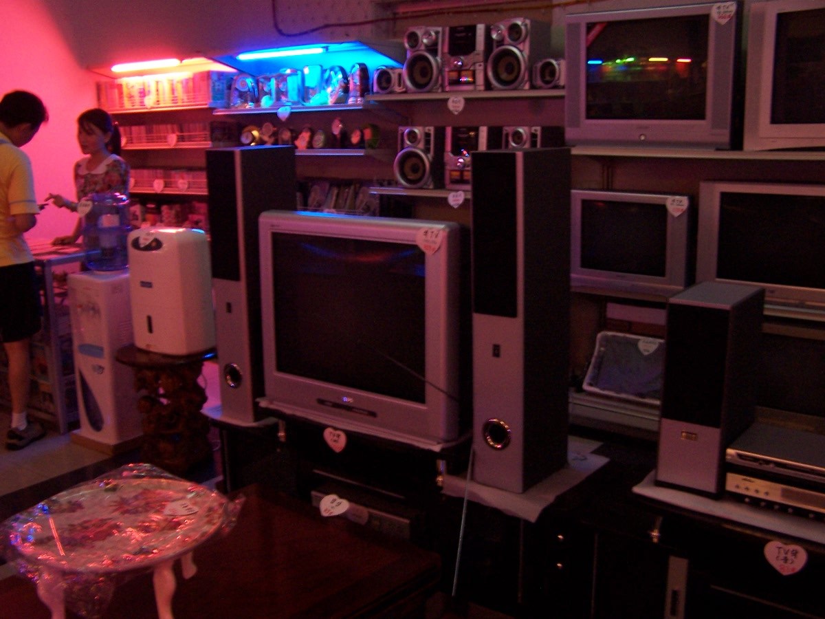 A special store for foreigners in Pyongyang.